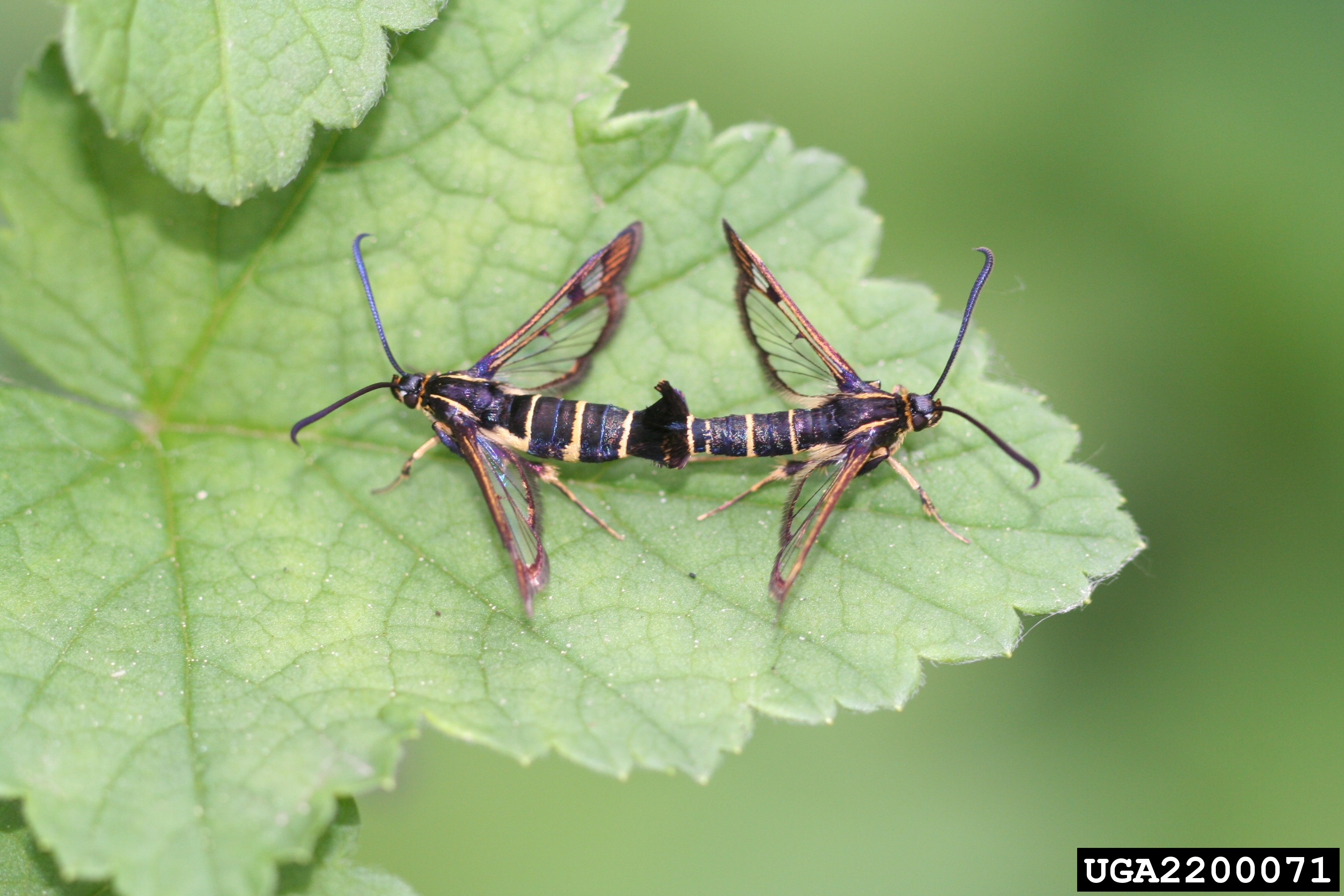 Synanthedon tipuliformis